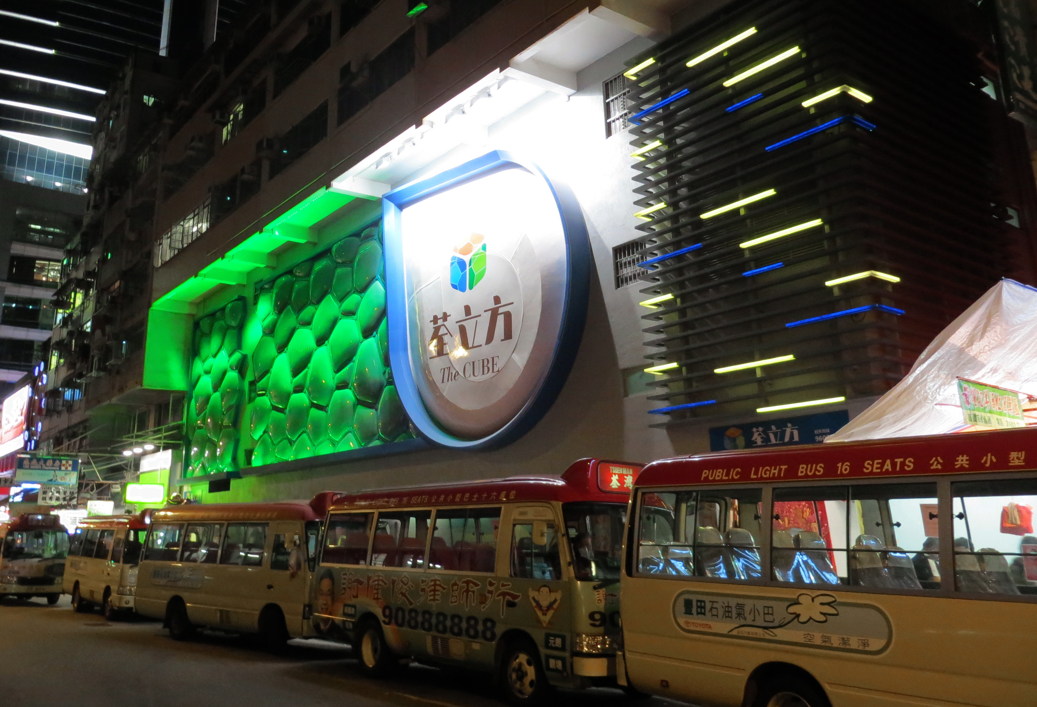 The CUBE, Hoi Pa Street, Tsuen Wan, Hong Kong.